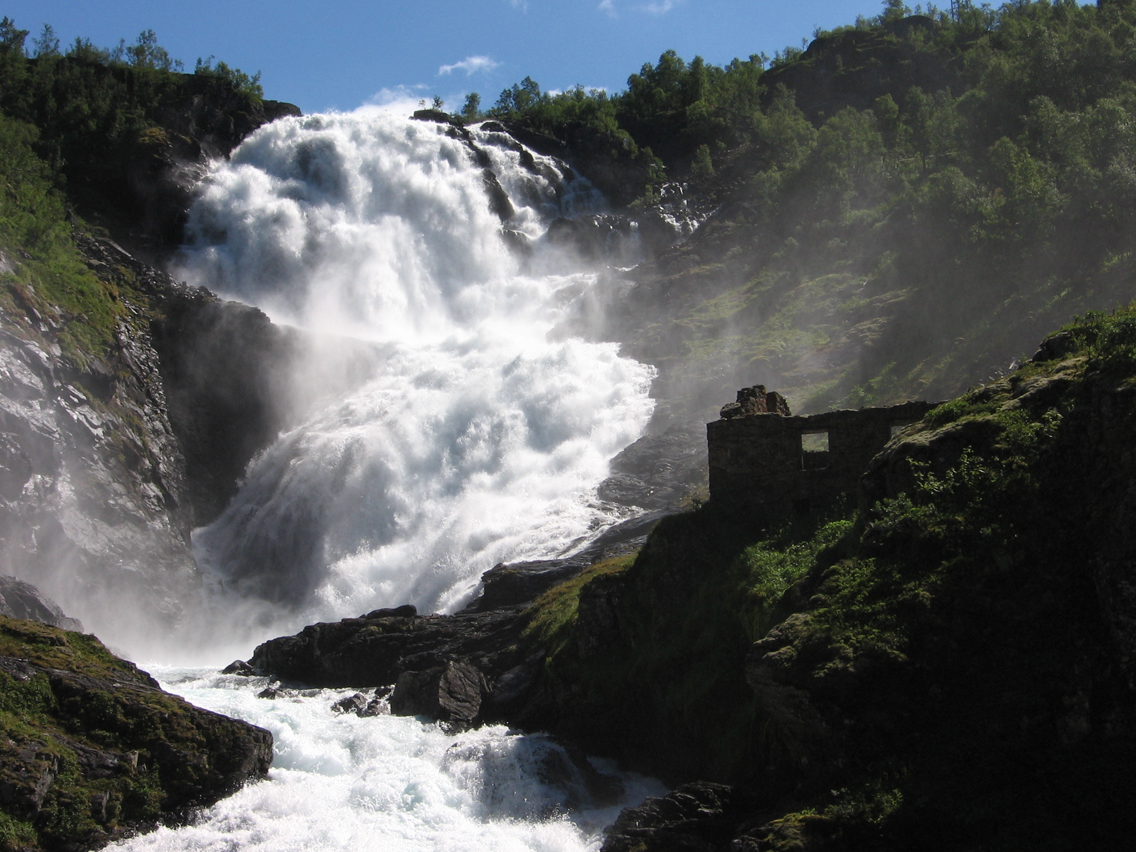 Picture of a waterfall (Kjosfossen) nearby Flåm, Norway.